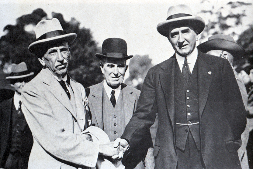 [LtoR] Billy Hughes, H.E. Pratten and Stanley Bruce Unveiling war memorial in New South Wales, 1925